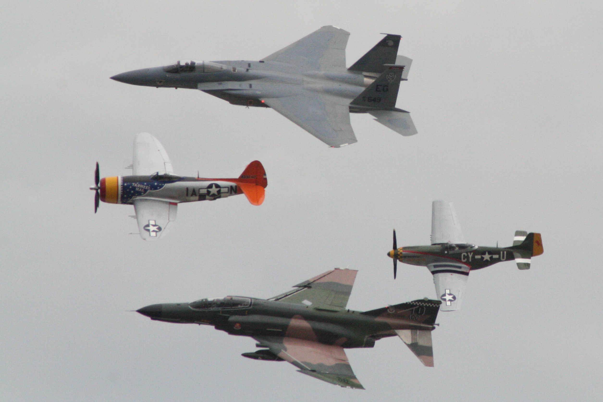 WW2 (P-47, P-51), Vietnam (F-4) and Modern US Aircraft (F-15) flying in formation at Wings Over Houston 2006.